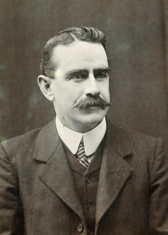 Portrait of William Joseph Denny circa 1910 - from the State Library of South Australia collection (image B6233)